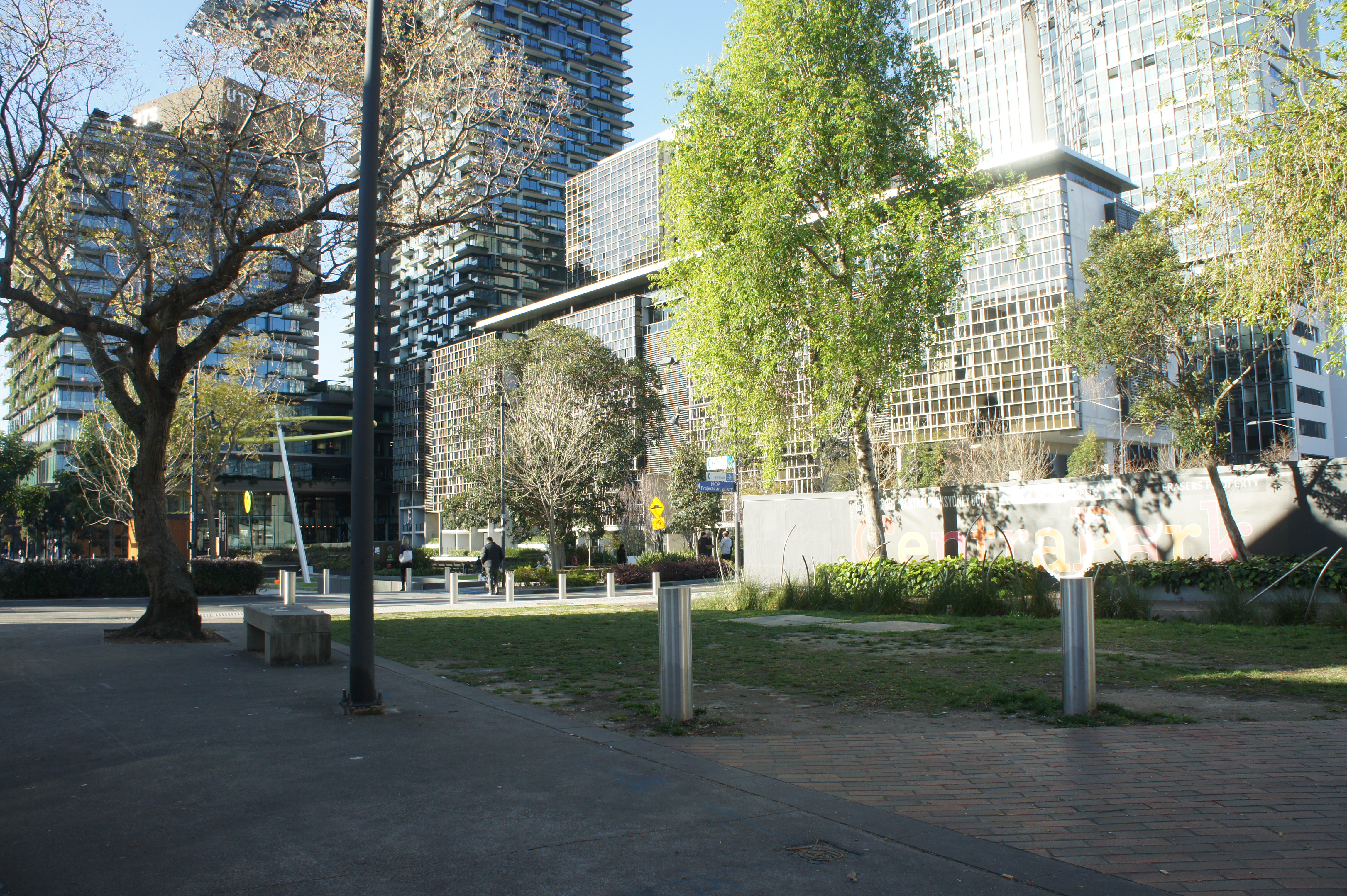 balfour street pocket park with central park in background